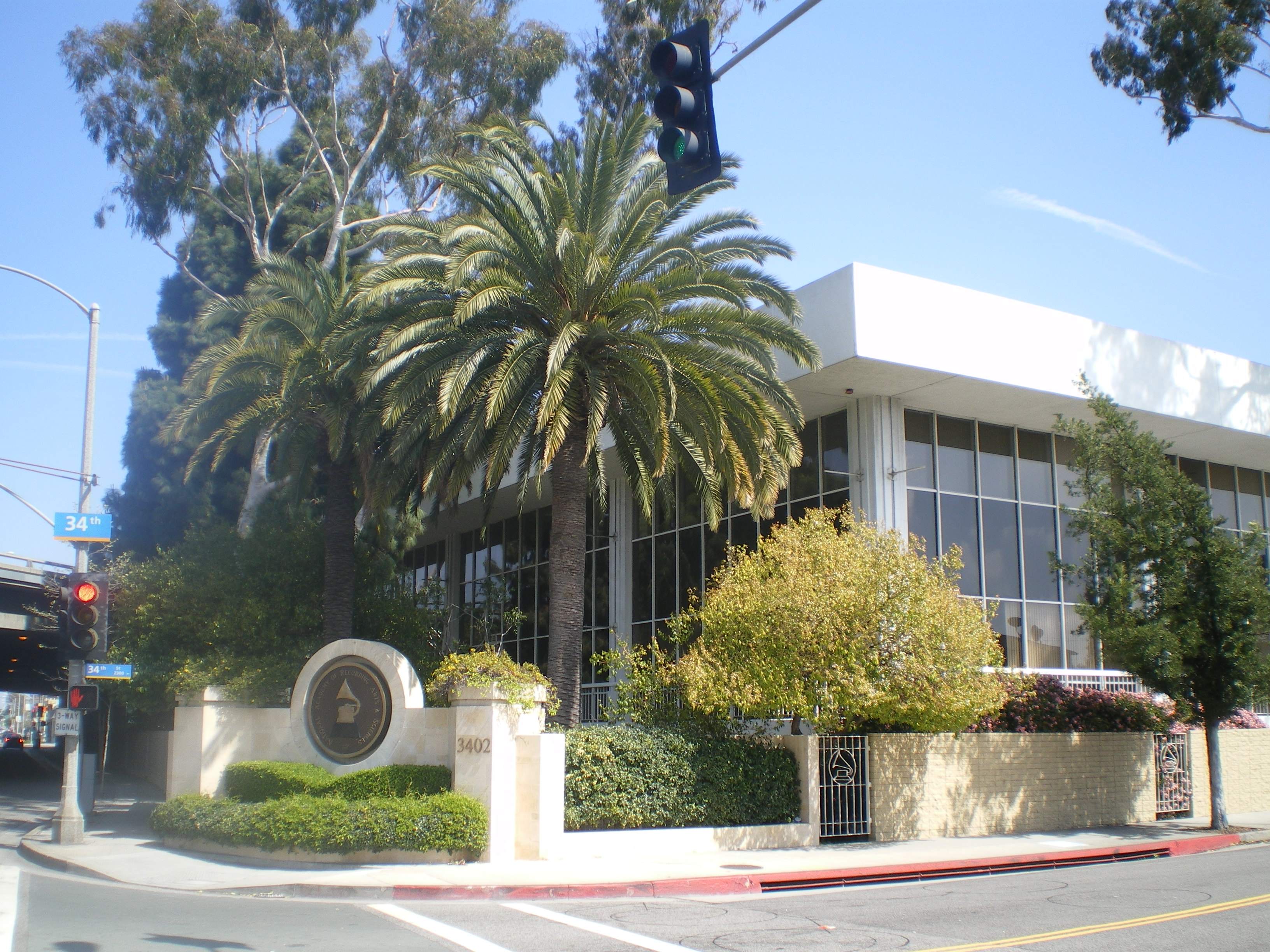 National Academy of Recording Arts and Sciences, Los Angeles, CA Pico Boulevard, Los Angeles, California